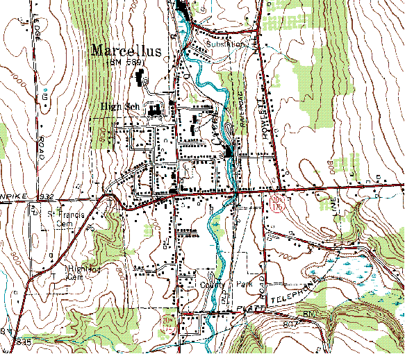 1976 topographic quadrangle of NY 175's western terminus at the time